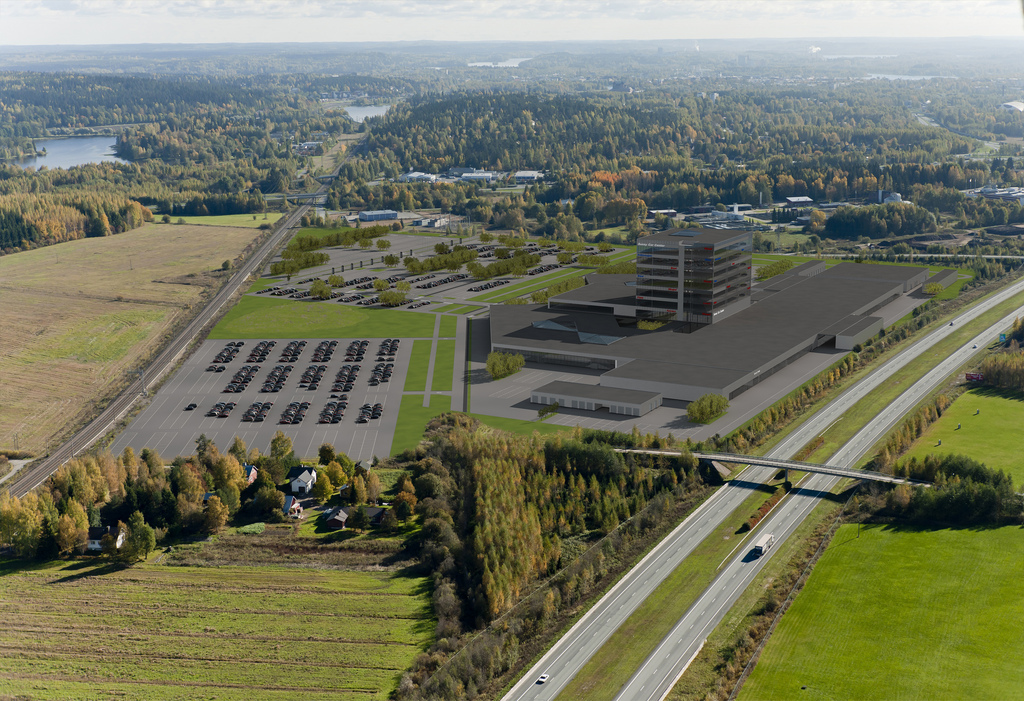 The biggest planned car center in Europe